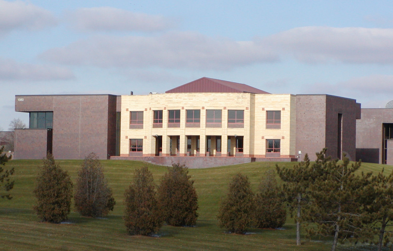 taken by William Wesen